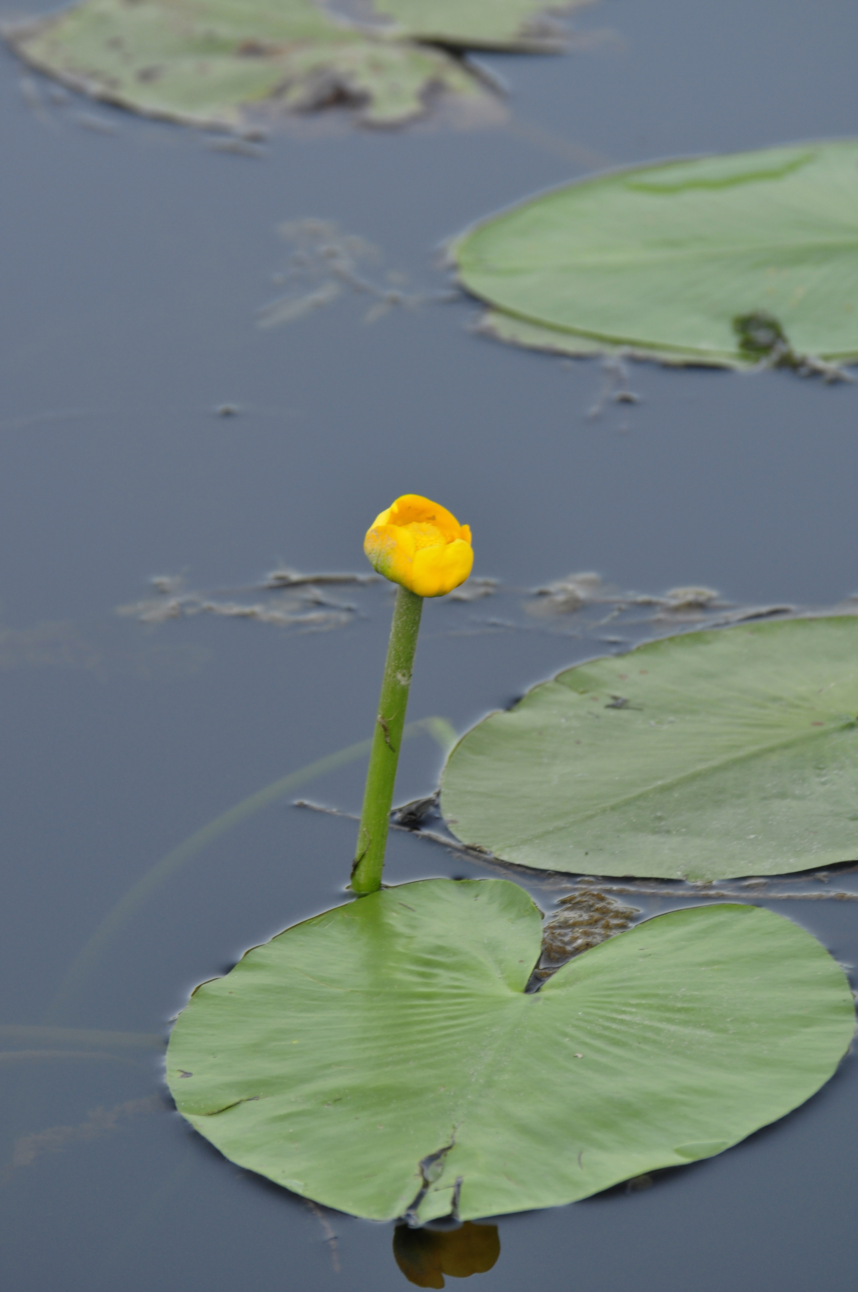 Nuphar lutea - Lake of Fimon, Arcugnano, Italy.